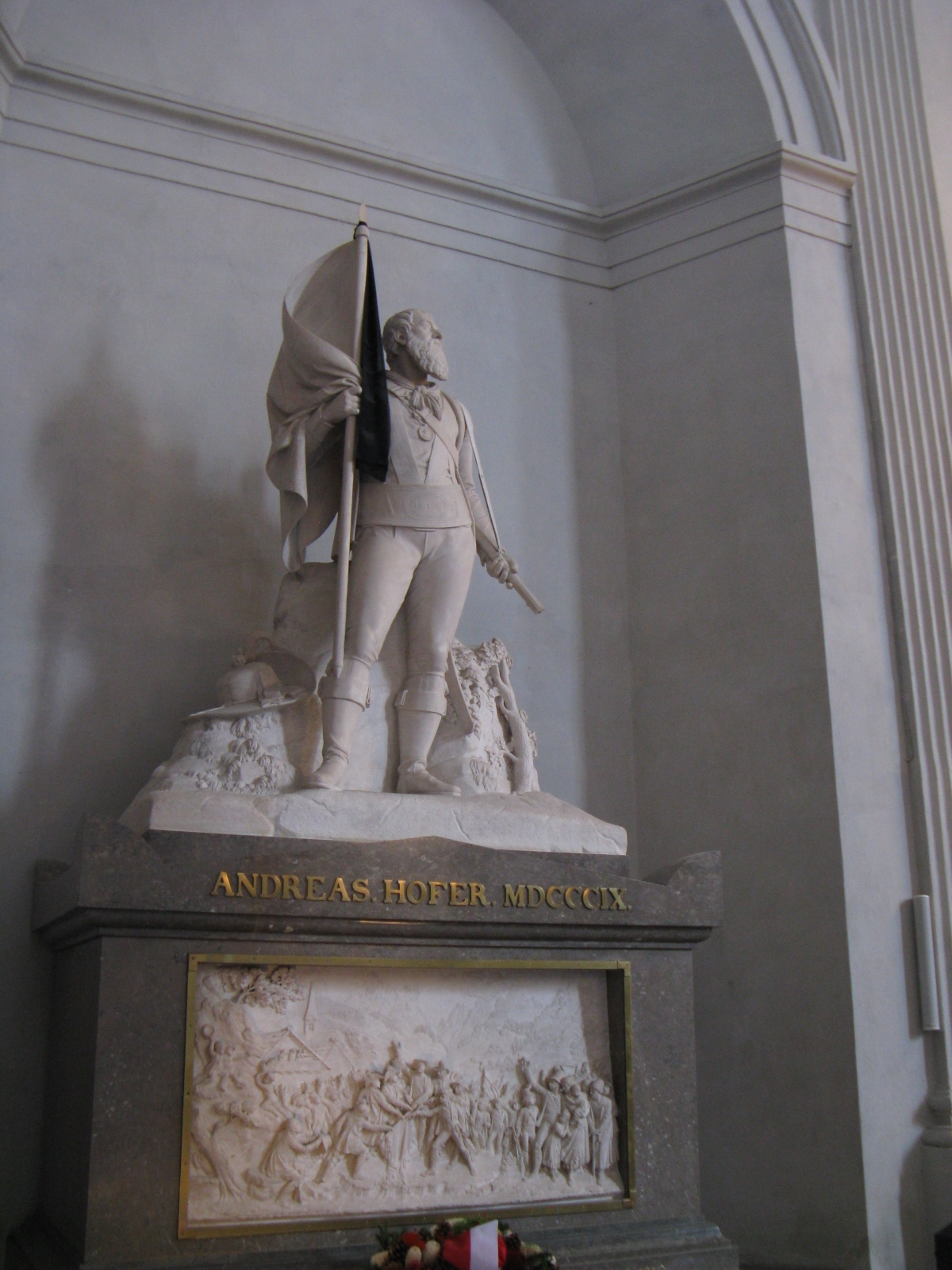 grave of Andreas Hofer in the Hofkirche, Innsbruck